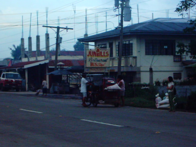 Picture personally taken by exec8 on September 27, 2005 as a special project for the Municipal Government of Quezon. User allows any party to use the image at any purpose.